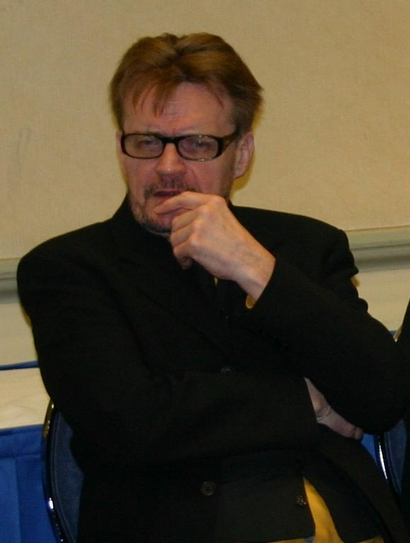 Photo taken by Elizabeth LeDrew during the second annual Sci-Fi on the Rock convention, April 20, 2008